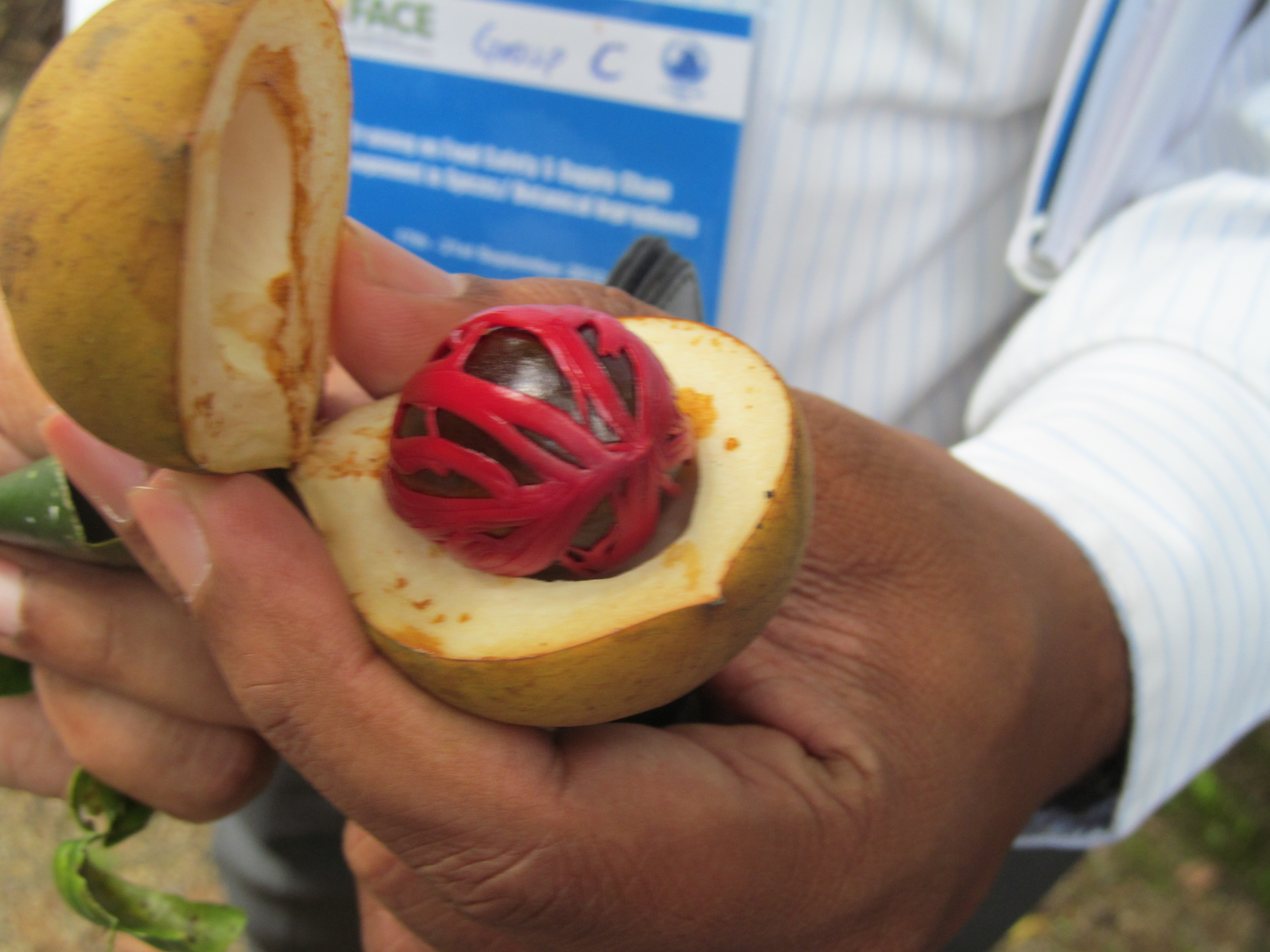 Two spices, one plant. The red wrapping (mace) surrounds a brown core of nutmeg. For more information read the Consumer Update at